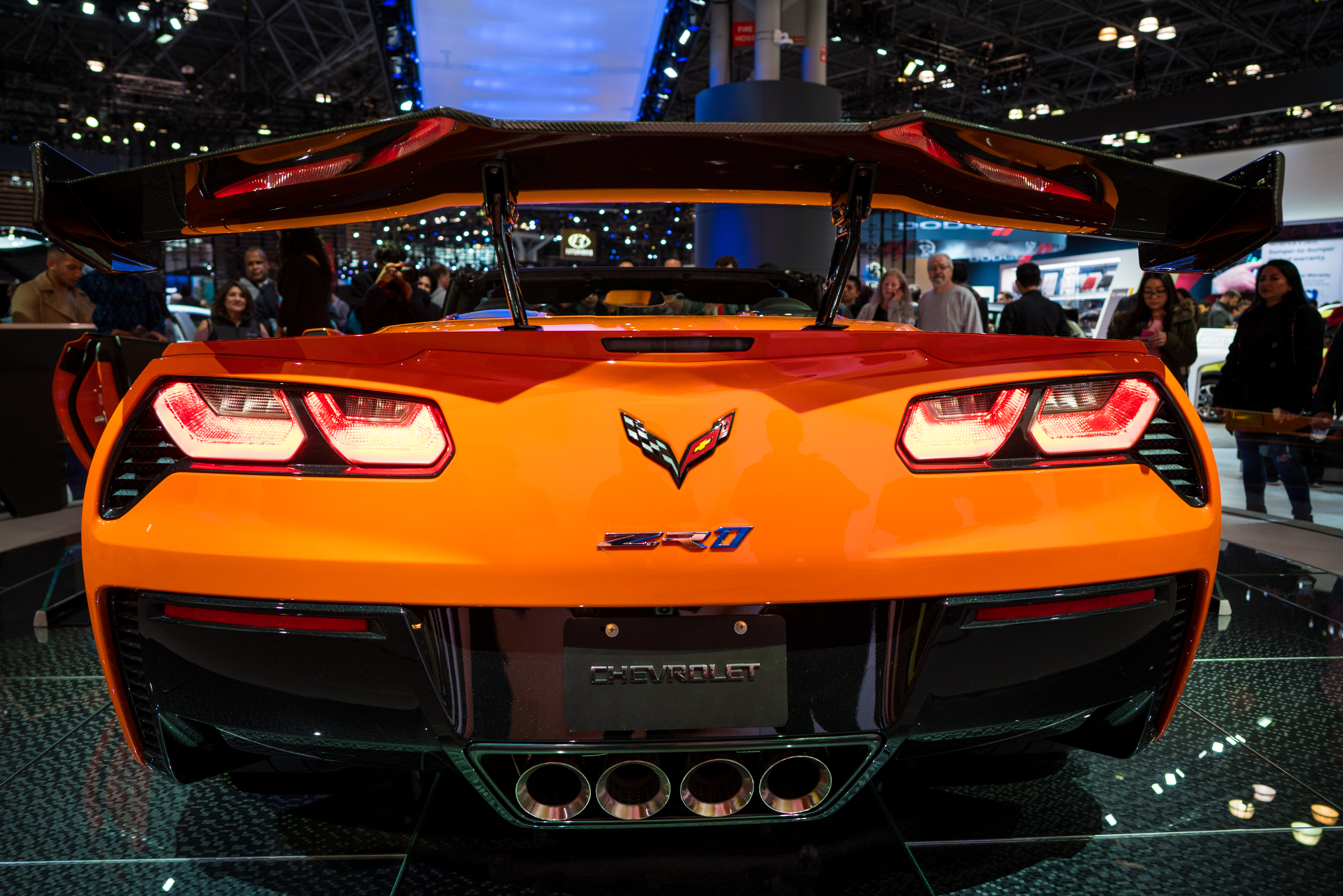 Corvette ZR1 at the New York International Auto Show NYIAS